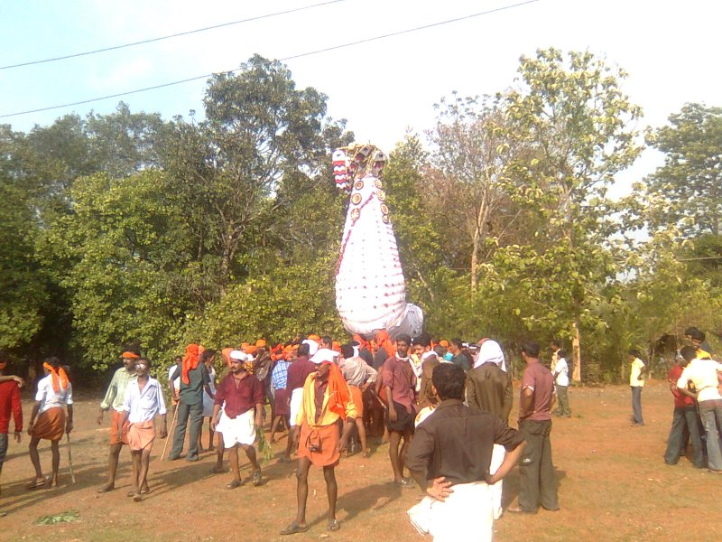 Aryankavu kuthira